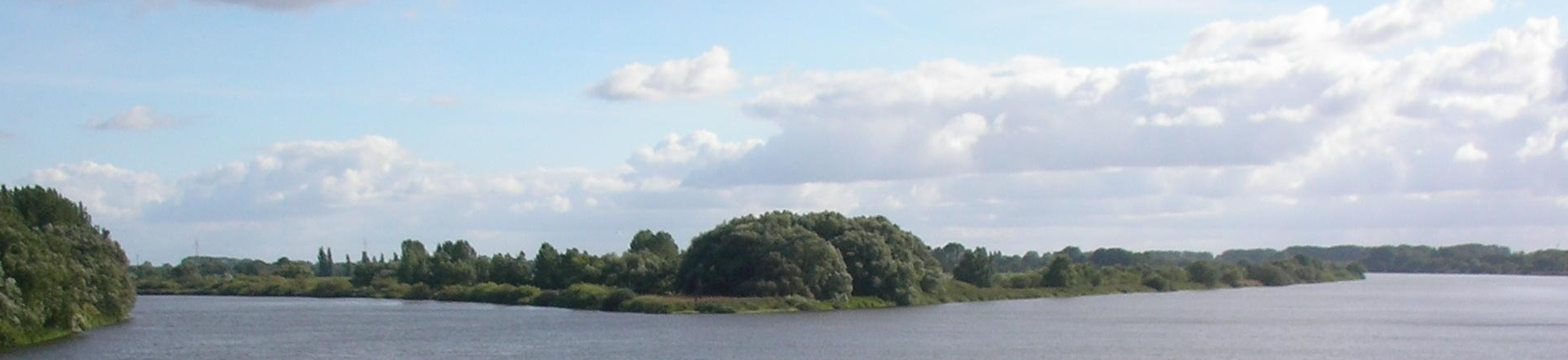 Hamburg (Spadenland), Germany: Confluence of the Elbe and the Dove Elbe